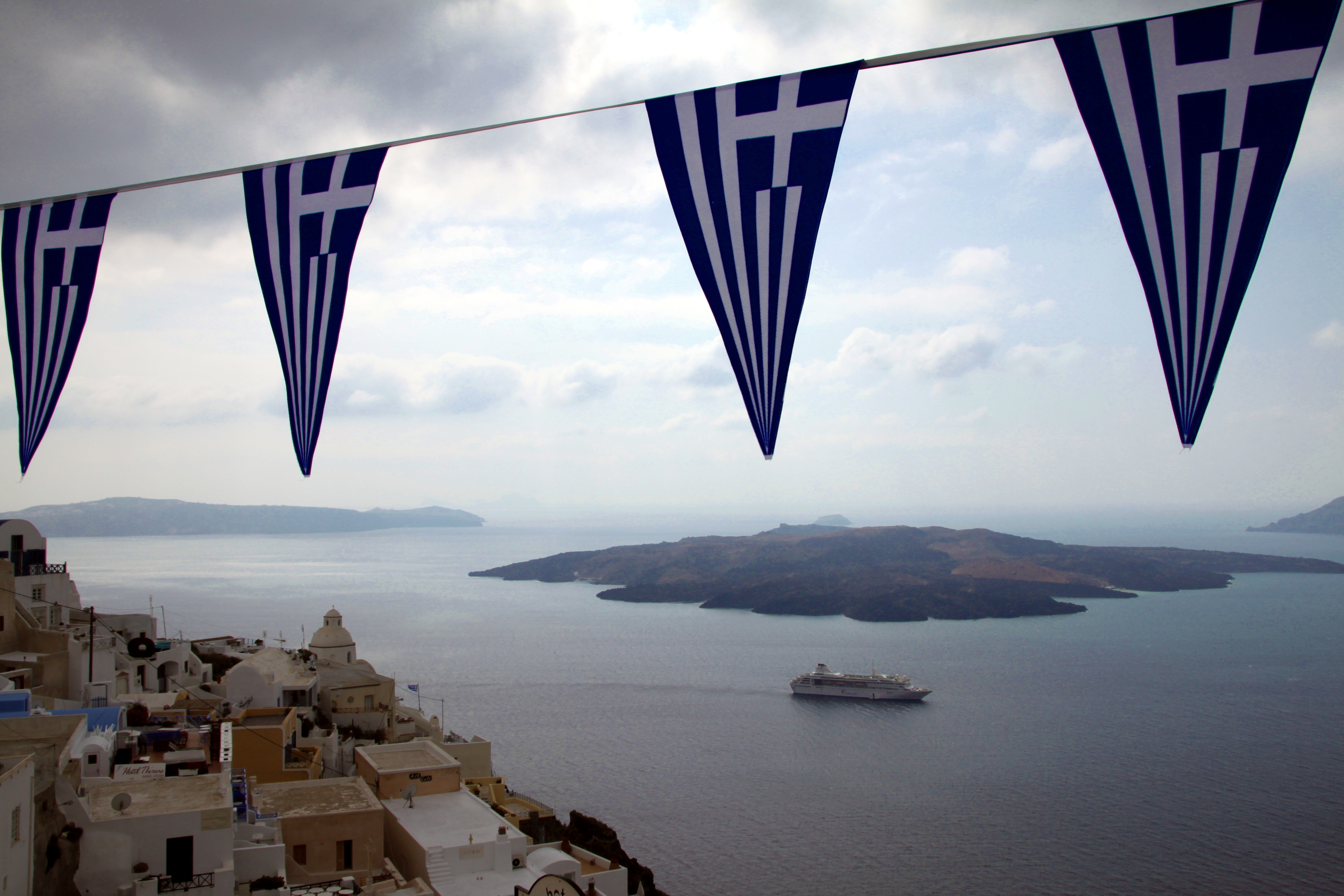 On 25th of March Greece celebrates the successful Greek Revolution of 1821 against the Ottoman Empire... 25.03.1821